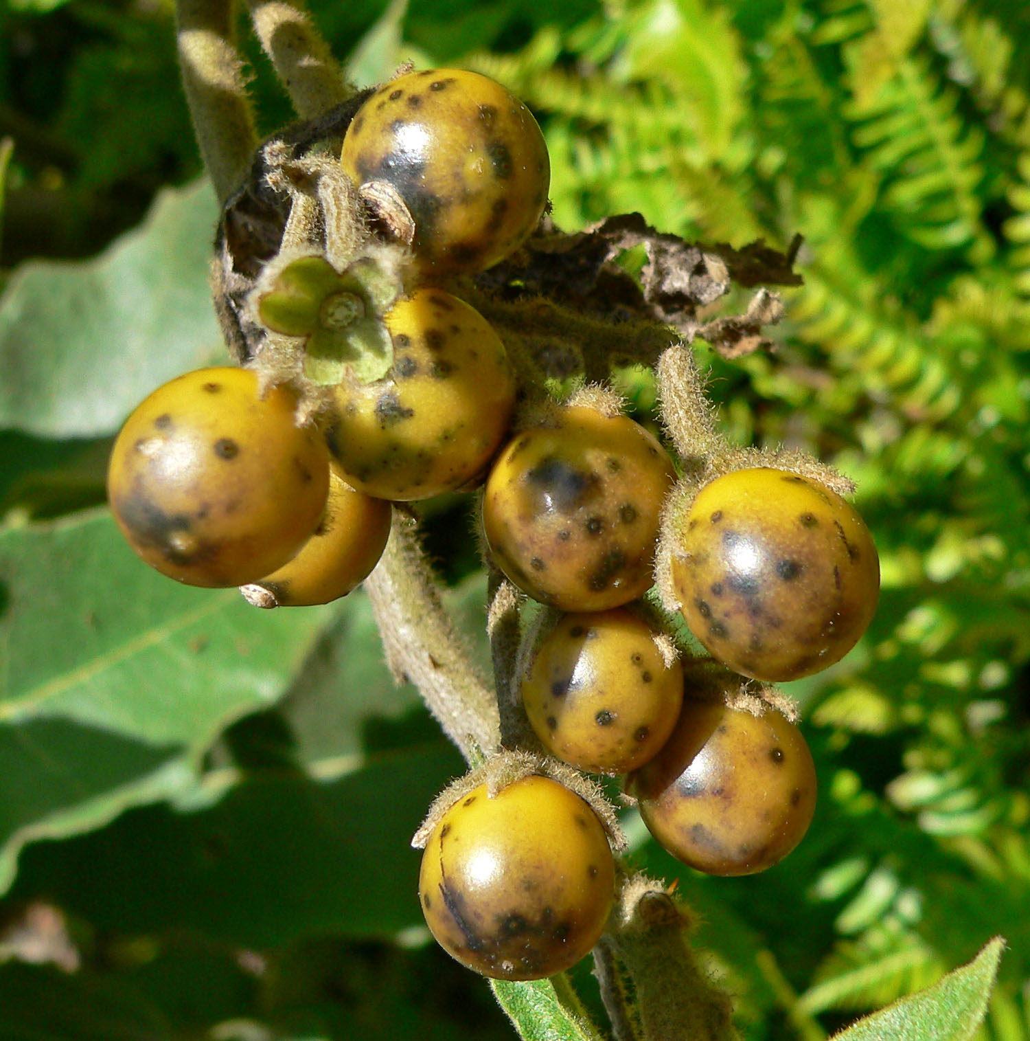 Solanum hispidum at the University of California Botanical Garden, Berkeley, California